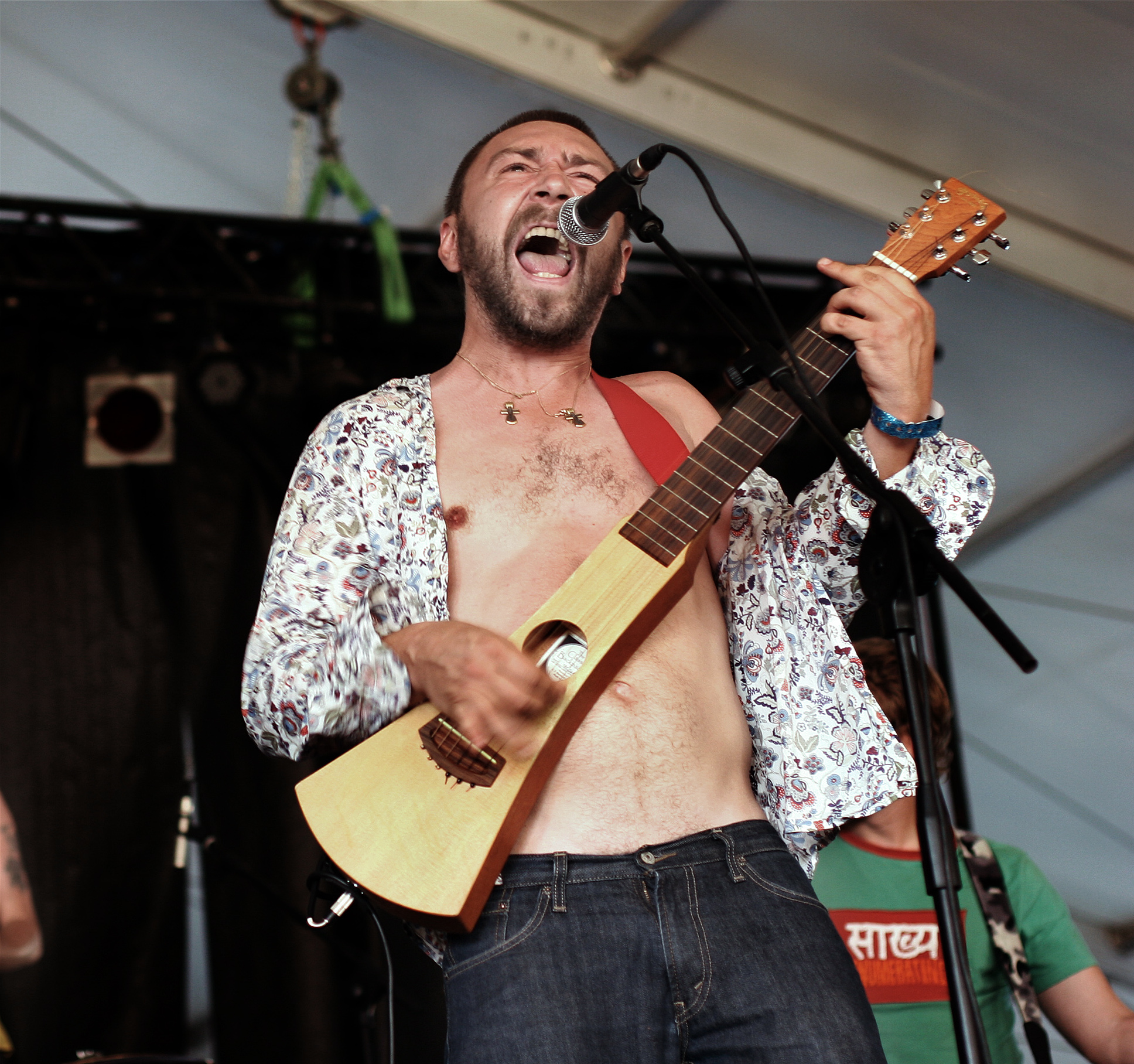 Sergei Shnurov of the band Leningrad (band) performing in 2007